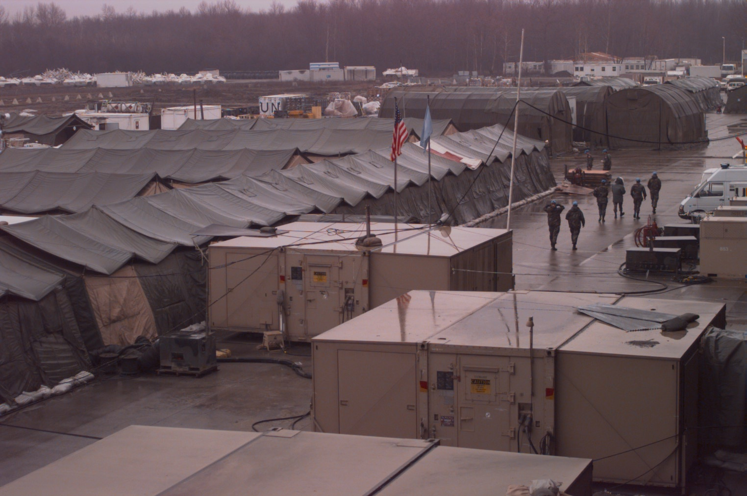 Members of the U.S. Hospital Zagreb at Camp Pleso, Zagreb, Croatia, walk between the rows of tents after the hospital ceased operations on Dec. 4, 1995. The tents of the hospital are being emptied of medical equipment and supplies and taken down by the 74th Medical Group (Provisional), of Wright-Patterson Air Force Base, Ohio. The hospital has served the United Nations Protection Force since November of 1992.